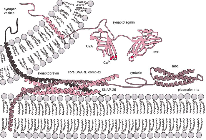 Molecular machinery engaged in synaptic transmitter release. Also used in "Nano and Molecular Electronics Handbook". Lyshevski SE (editor), Nano and Microengineering Series, Boca Raton: CRC Press, 2007, pp. 17-11--17-41.